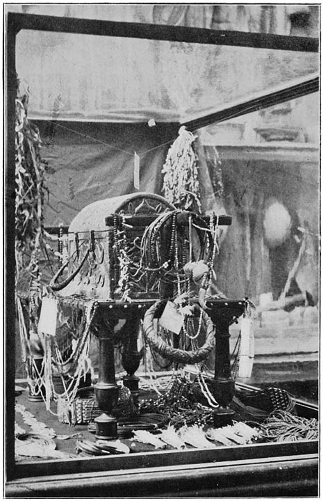 Coffin of an Igorote Noble with his coronets and other ornaments (c. 1900, Philippines)